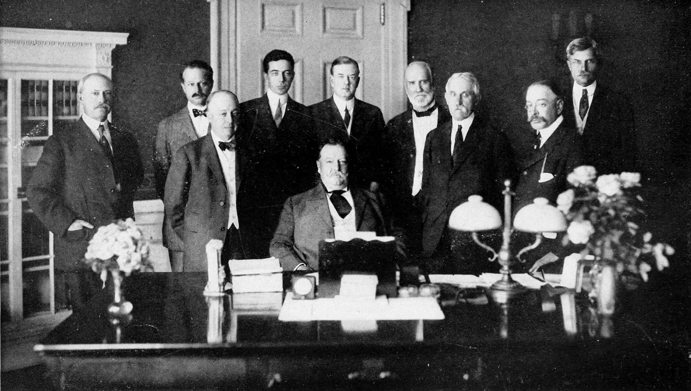 Group portrait of the cabinet of President of the United States William Howard Taft (seated at center). Left to right: Richard Achilles Ballinger, George von Lengerke Meyer, Philander C. Knox, Charles Dyer Norton, Frank Harris Hitchcock, James Wilson, Franklin MacVeagh, George W. Wickersham, Charles Nagel